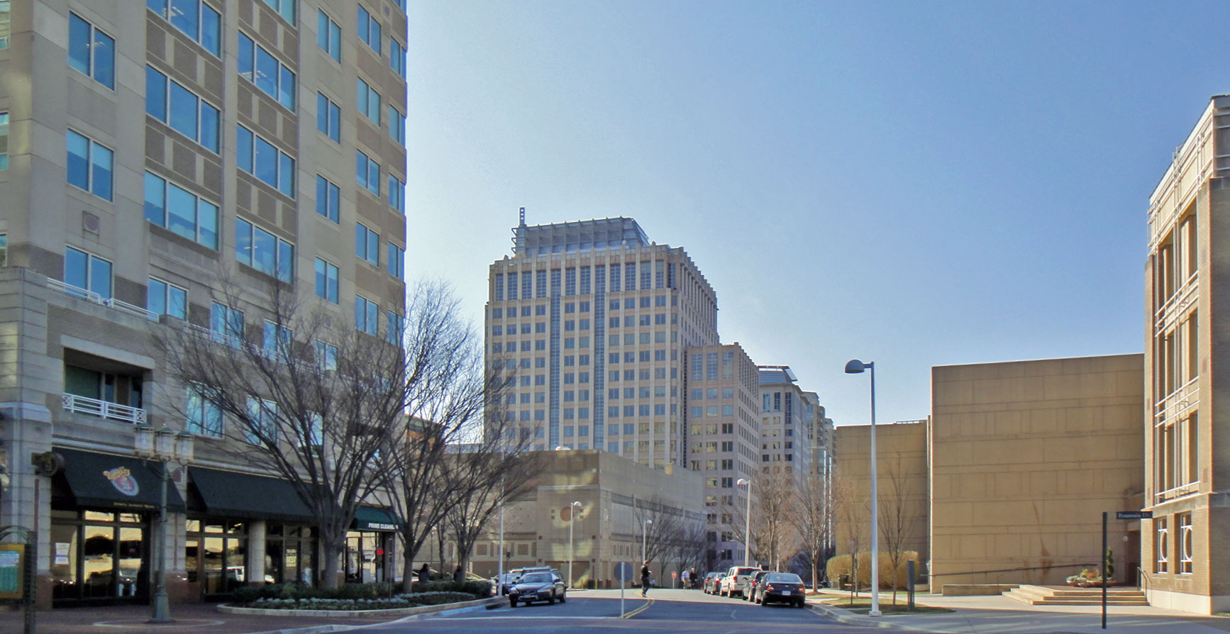 Reston, Virginia town center